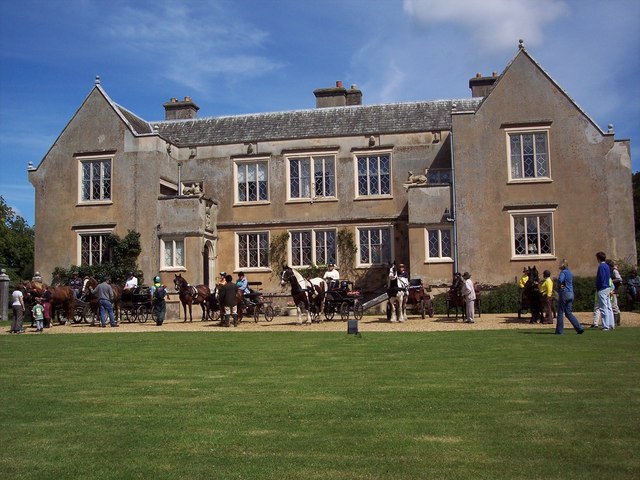 Ready for inspection at Bisterne Manor Driving Society members awaiting inspection in front of Bisterne Manor nearing the end of a twelve mile drive. It was a wonderful drive with no roads and traffic to contend with - bliss.